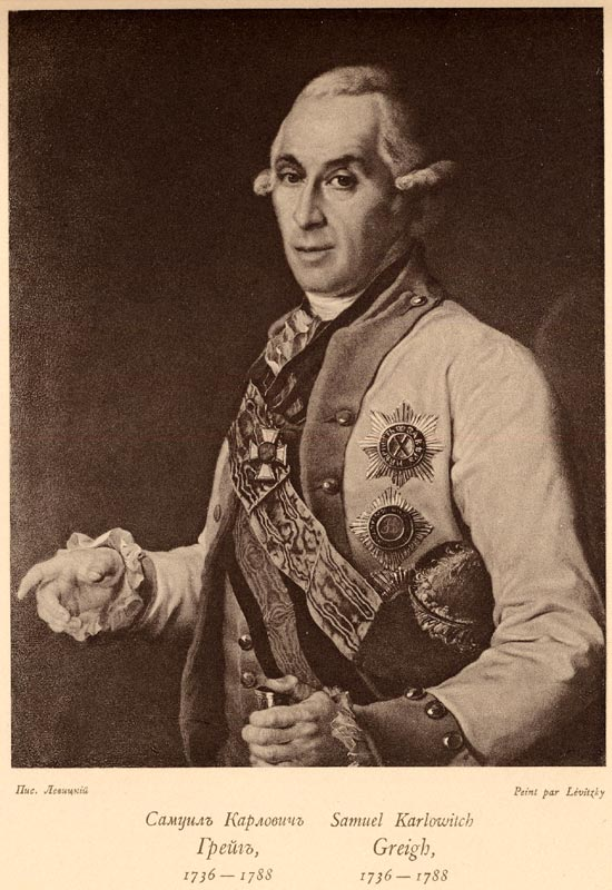 Samuil_Karlovich Greyg (1736 — 1788) russian admiral